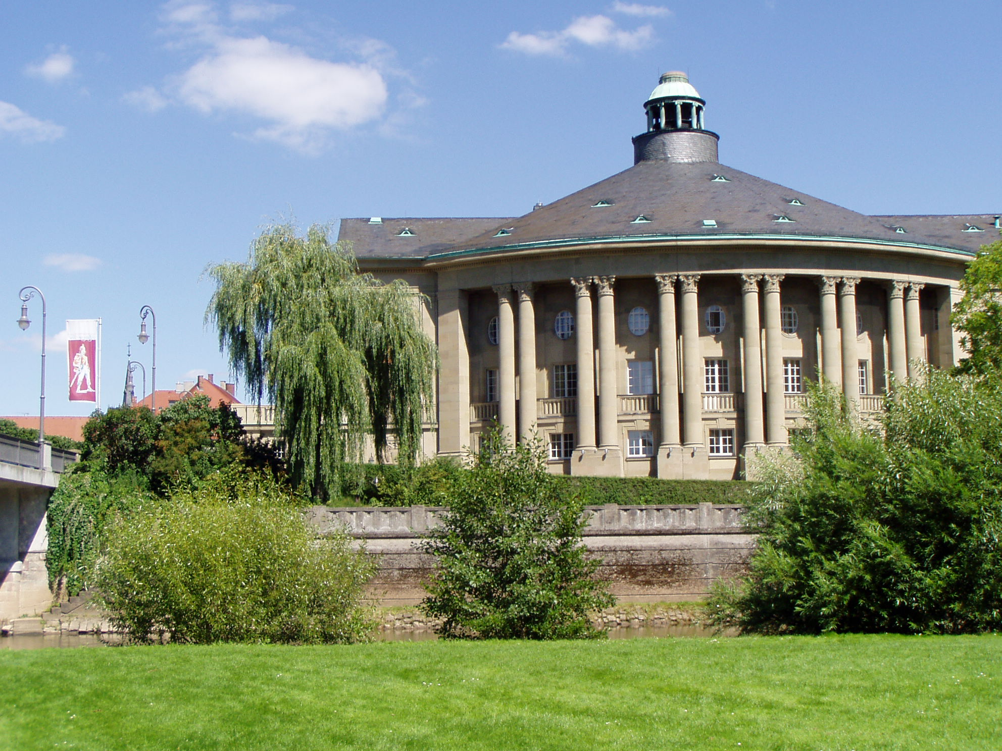 Concert Hall „Regentenbau“ of Bad Kissingen (Bavaria, Germany)